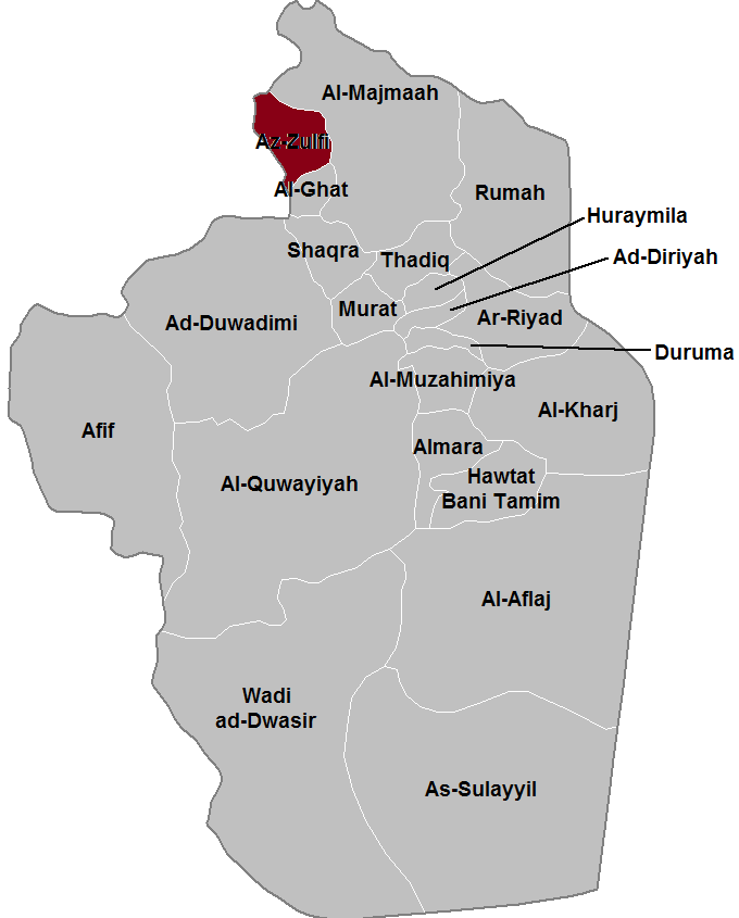 Al Zulfi highlighted in Riyadh emirate of Saudi Arabia.